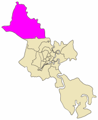 position of Cu Chi district in an outline of the metropolitan area of HCMC (Ho Chi Minh City, Vietnam) - ISO code VN-F-HC. Keywords: map, outline, city, Ho Chi Minh City, HCMC, HCM, Cu Chi district, huyen Cu Chi.